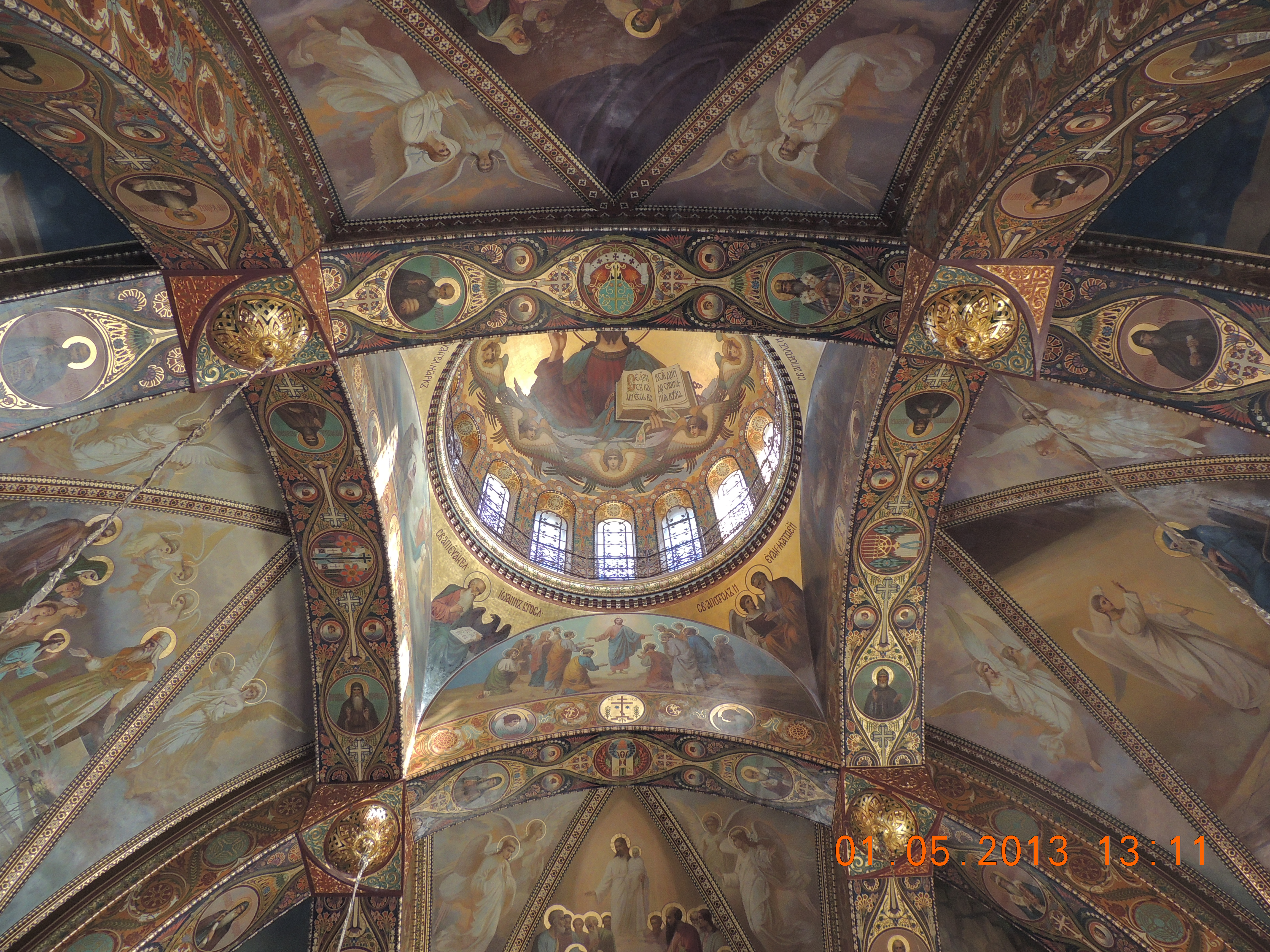 Assumption Church on Vasilyevsky Island